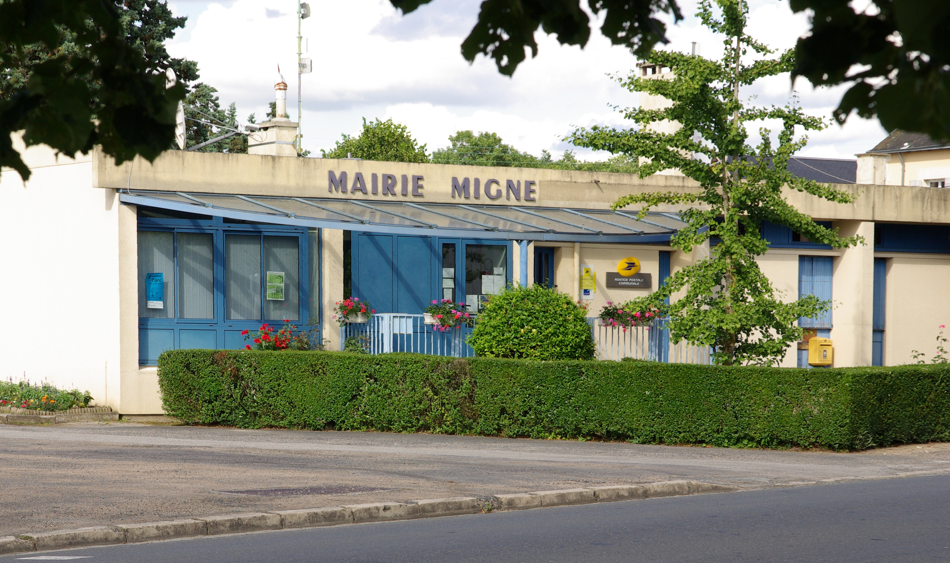 Town hall of Migné village in Indre (36); Brenne area in France.